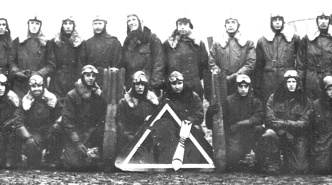 96th Aero Squadron - Group Pose (Closeup)